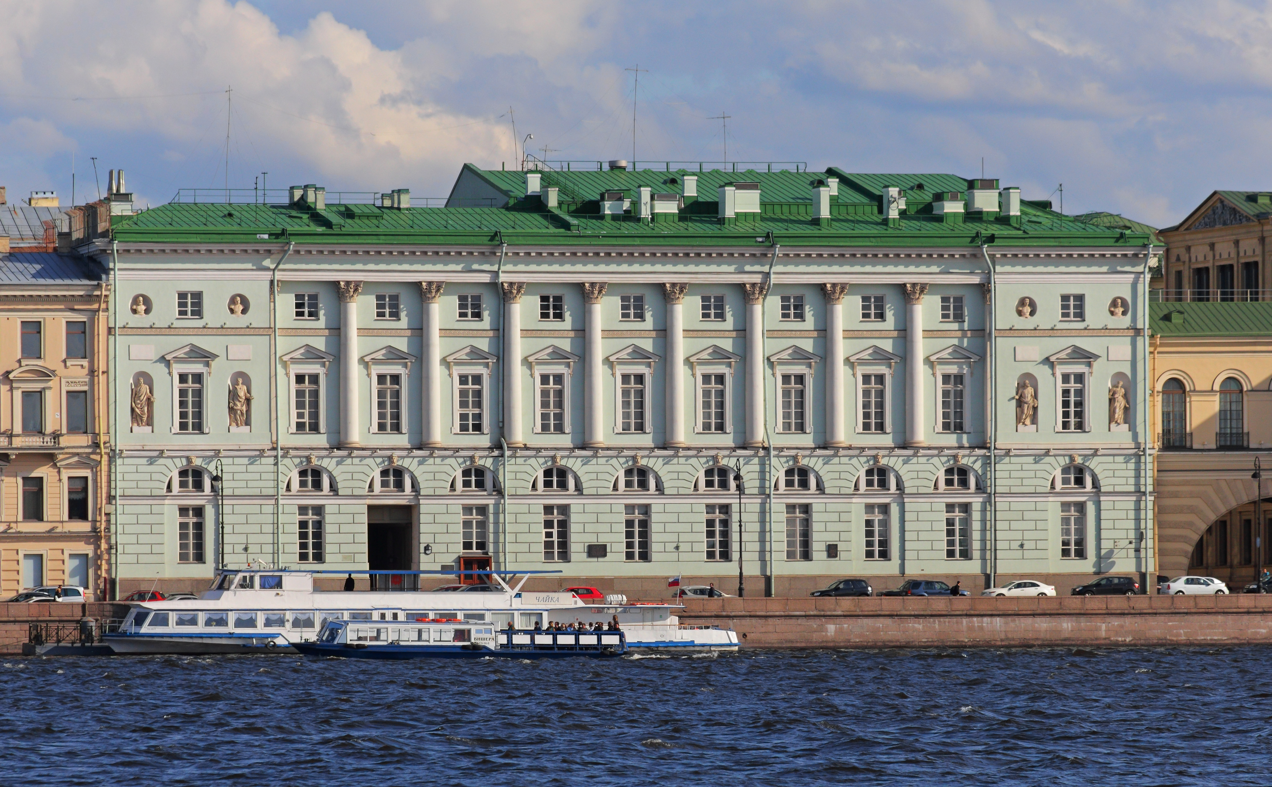 Saint Petersburg, Russia. Palace Embankment, house 32 (Hermitage Theatre).